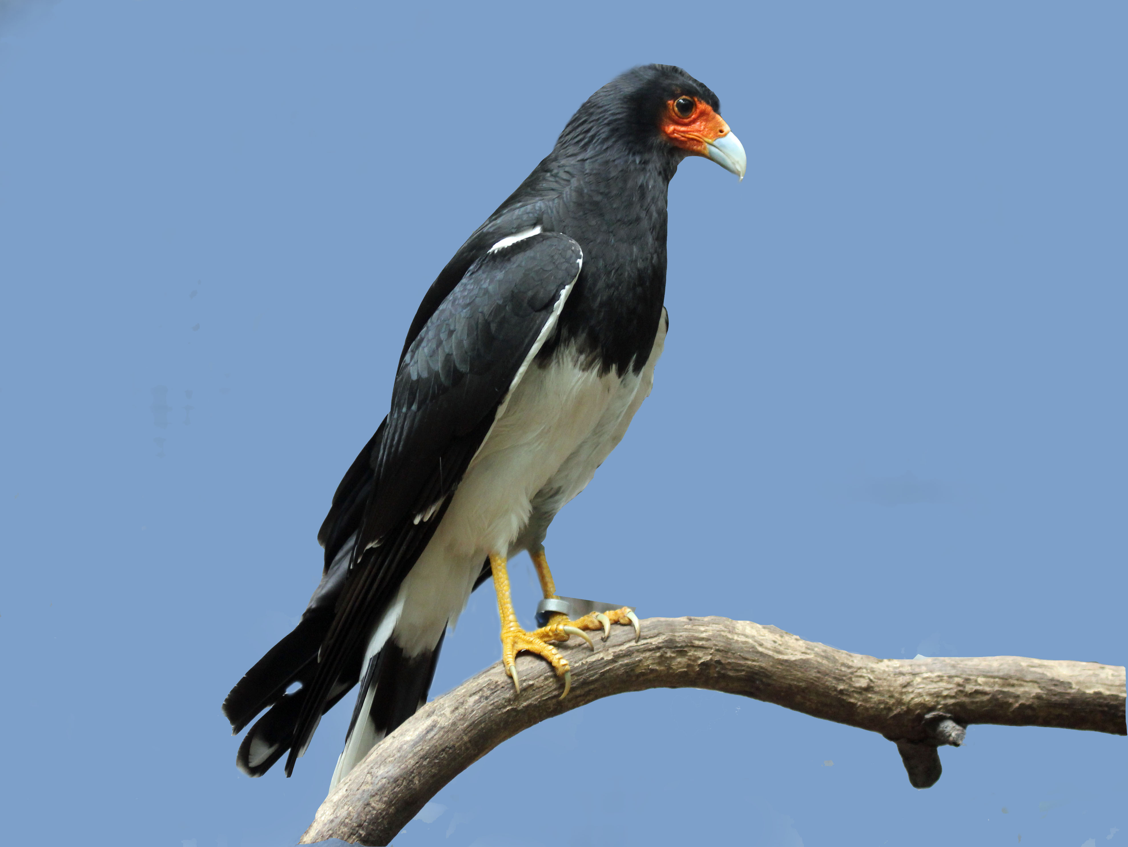 Mountain Caracara (Phalcoboenus megalopterus) at World of Birds (